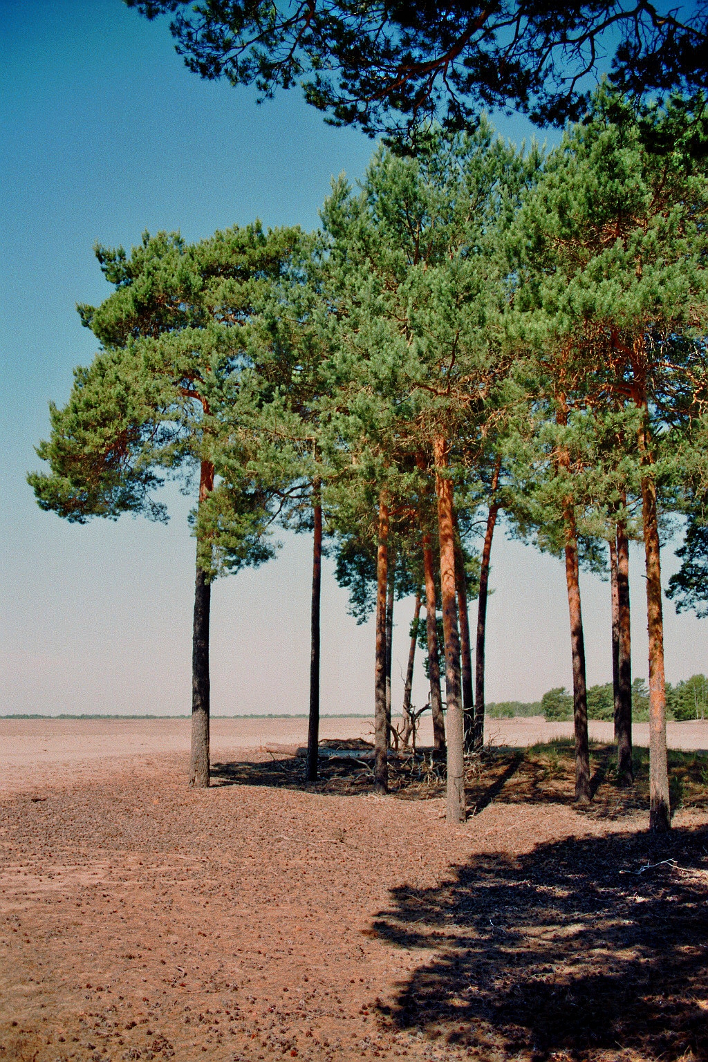 Lieberose Desert (Lieberoser Wüste) in the Lieberoser Heide near Lieberose, Landkreis Dahme-Spreewald, Brandenburg, Germany. It is Germany's largest desert. (Photo taken on a guided tour.)